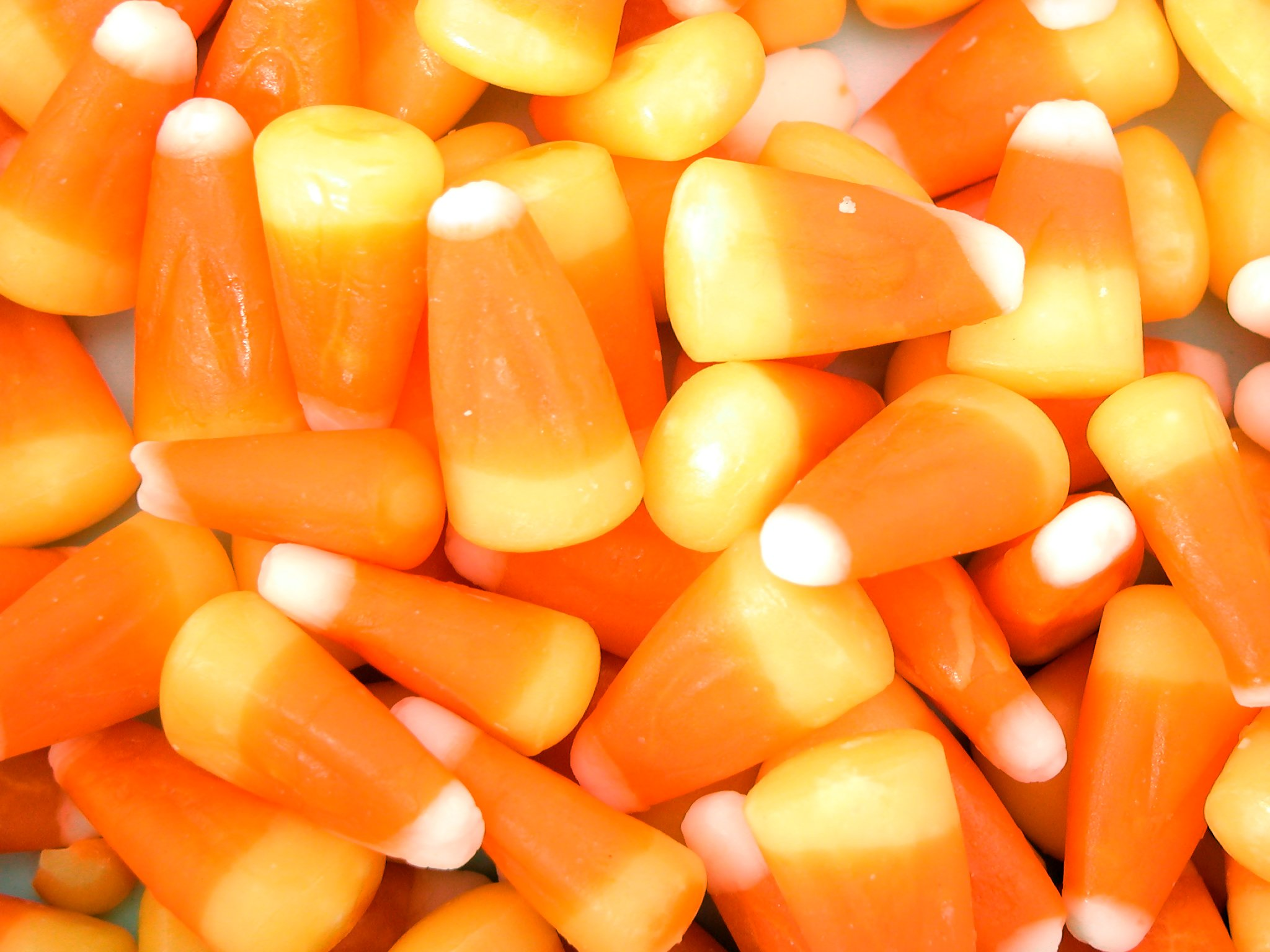 Candy corn.